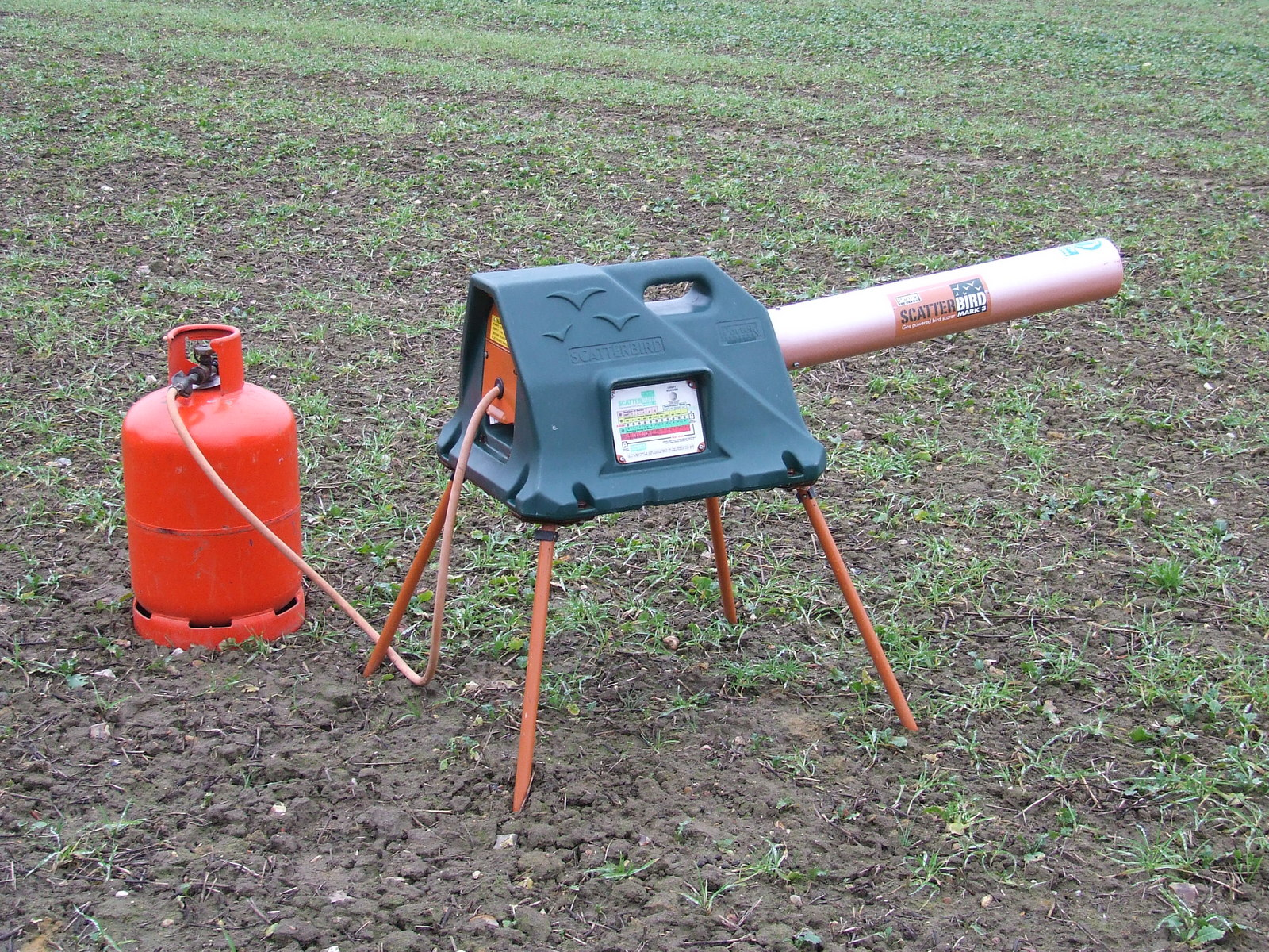 Bird Scarer On Legs. Bird scarer near to Fersfield, Norfolk. For overall view see 1702219.